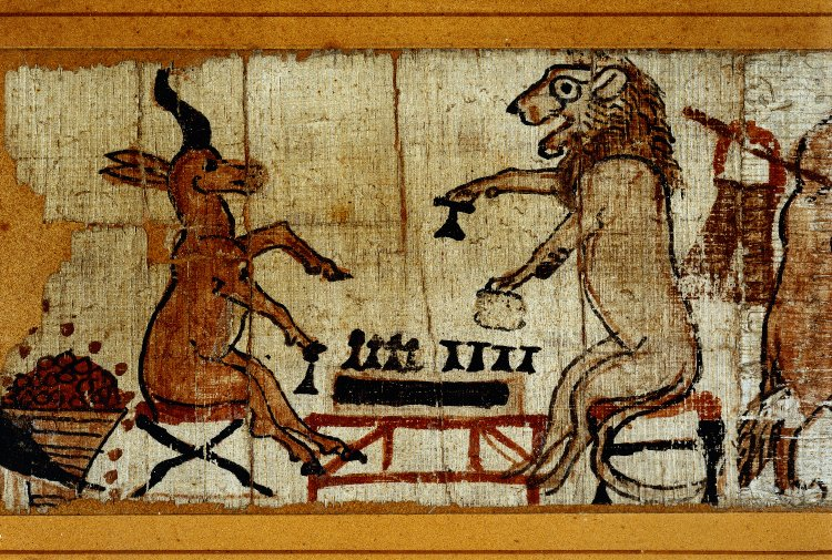 "Papyrus with satirical vignettes: a figured scene in which animals ape human activities, but in a topsy-turvy world, they act against their natural instincts. The lion does not attack the gazelle but plays a board game, probably 'senet', with her." British Museum BM/Big number: 10016,1